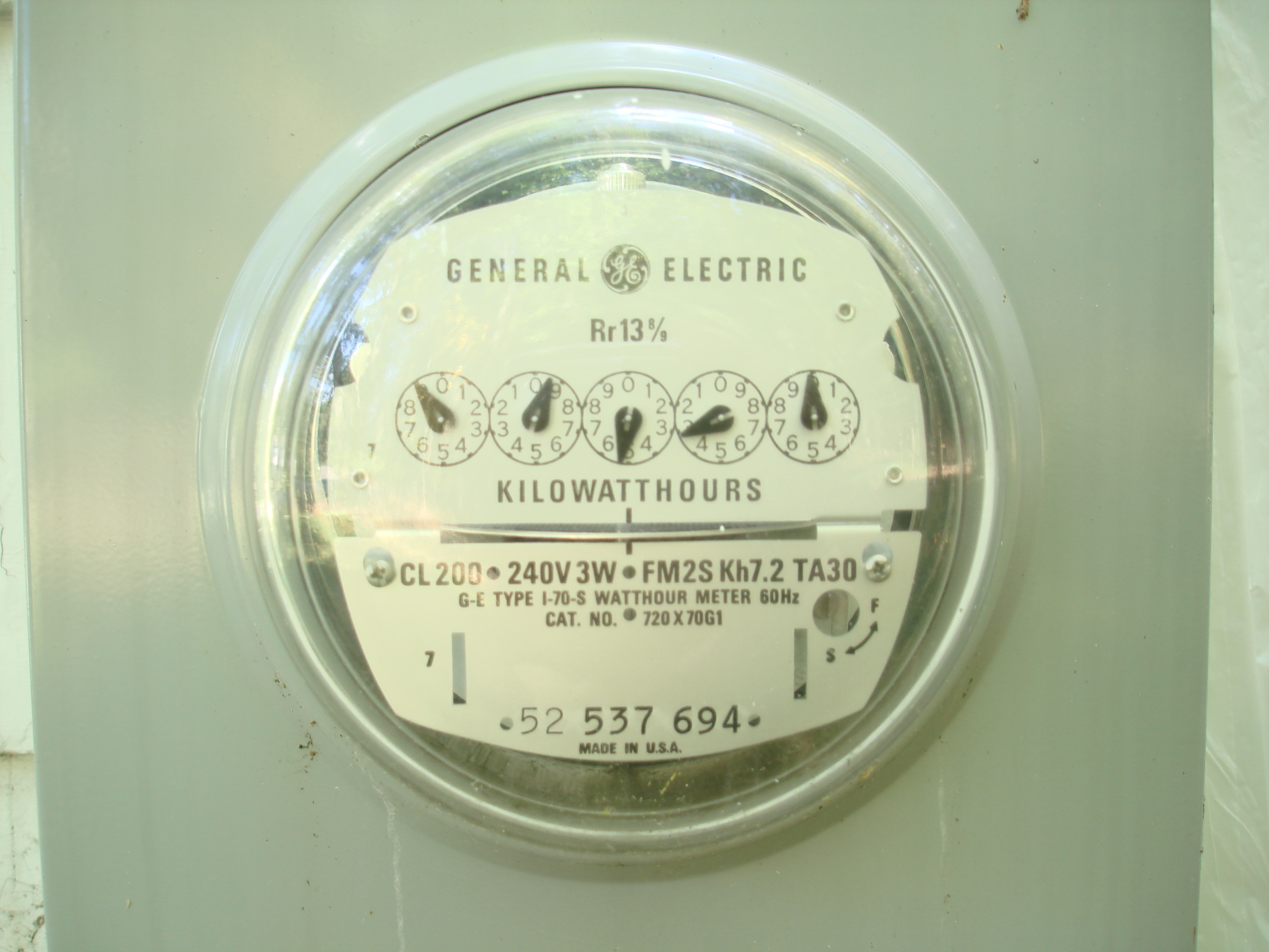 wattmeter, U. S. residence